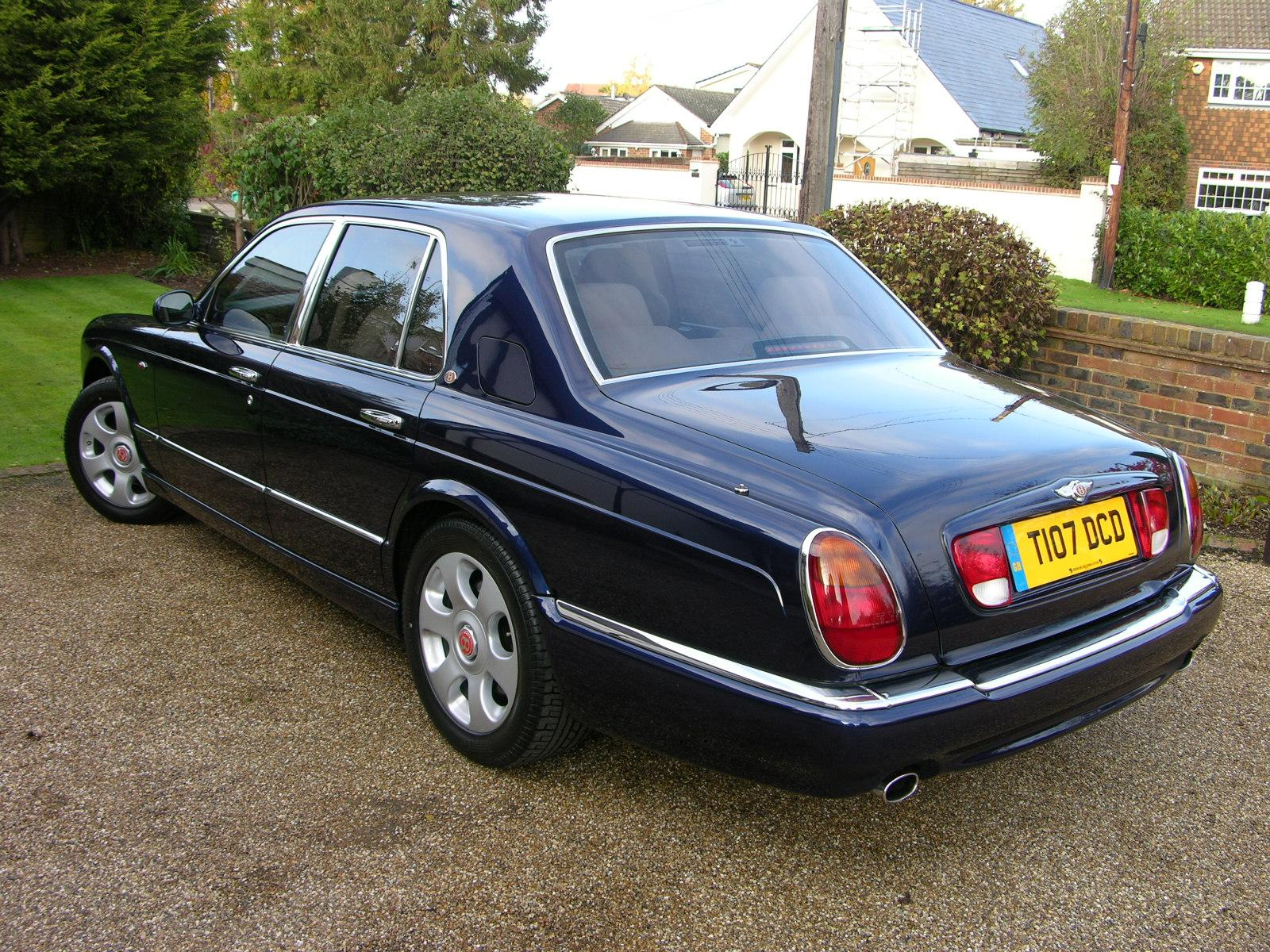 1999 Bentley Arnage V8